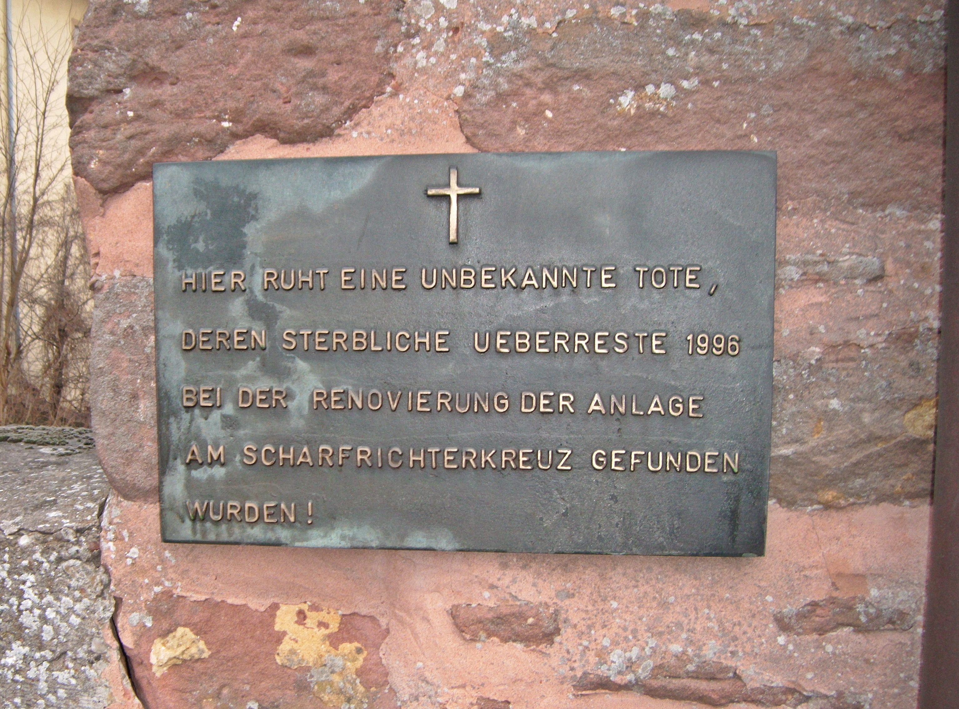 Neuleiningen, Friedhof, Gedenktafel für Tote, die 1996 beim Scharfrichterkreuz (1703) aufgefunden wurde